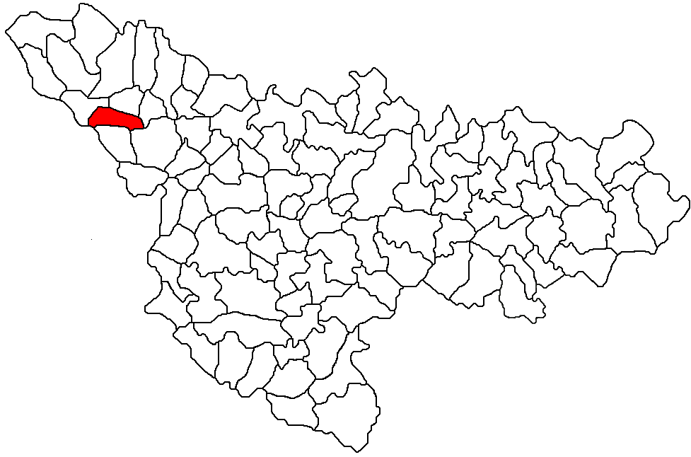 Locator map of the commune of Gottlob, Timiș County, Romania Gottlob, Timiș